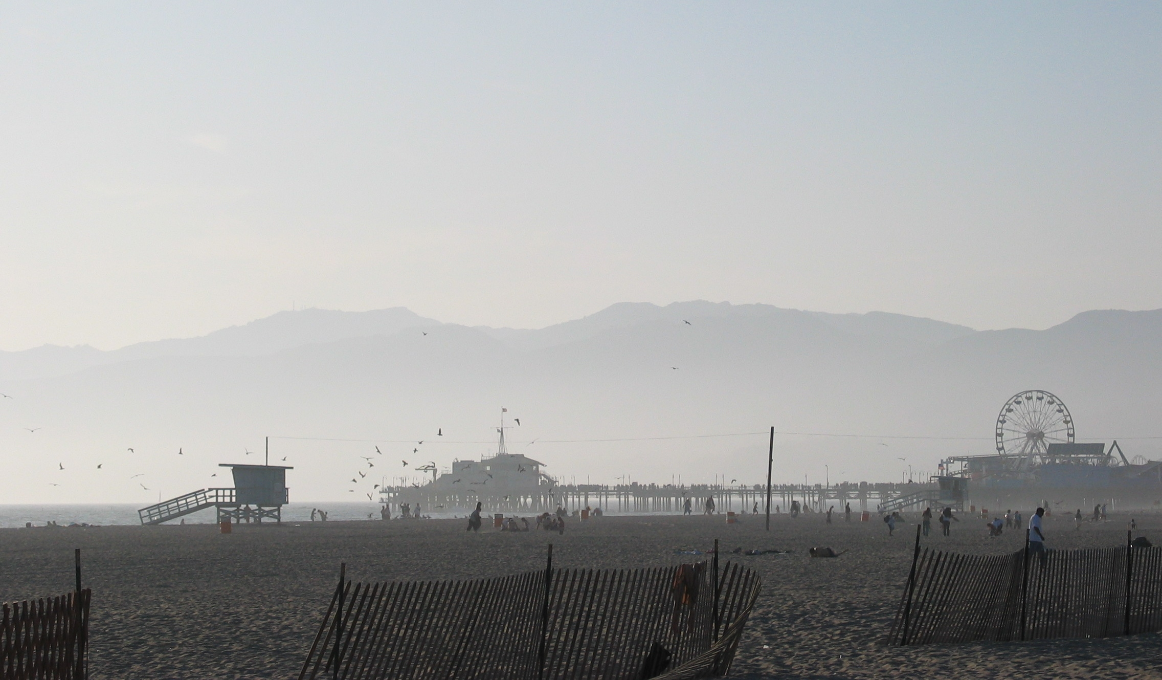 Santa Monica beach and pier, with Santa Monica Mountains in backround - Southern California, USA